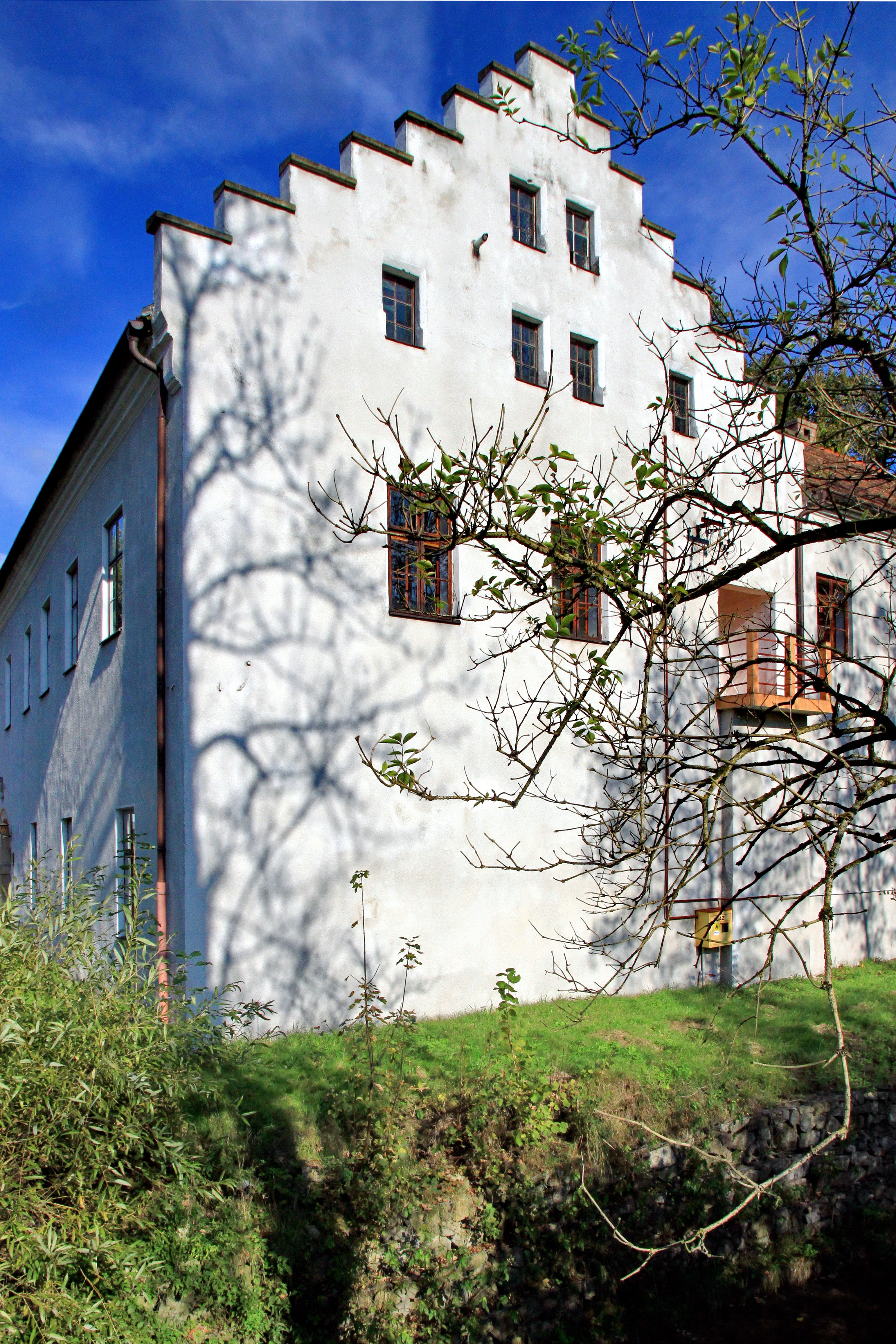 Dzięgielów, castle, build in 17th century